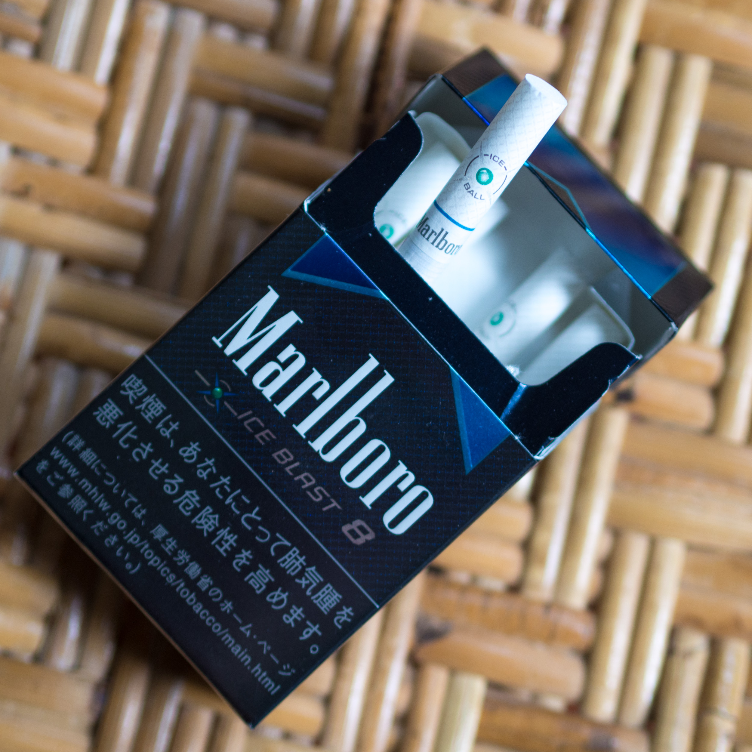 Marlboro Ice Blast is a mentholated cigarette that contains an additional menthol capsule (the so-called "ice ball") in the filters which can be cracked open by pressing down on it hard. This packet was brought from Japan into Thailand as "grey import" as they're not distributed in Thailand.